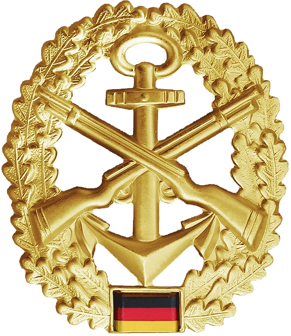 (Internal) coat of arms of the Bundeswehr (Armed Forces of the Federal Republic of Germany). → Remarks on naming and categorization scheme